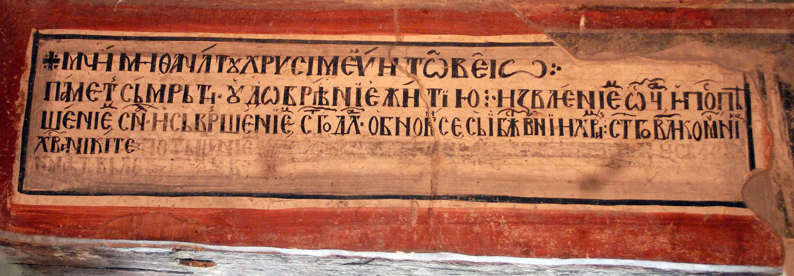 Inscription in Old Cyrillic over the western doorway of the St. Nicetas Church. Village Banjani, Macedonia